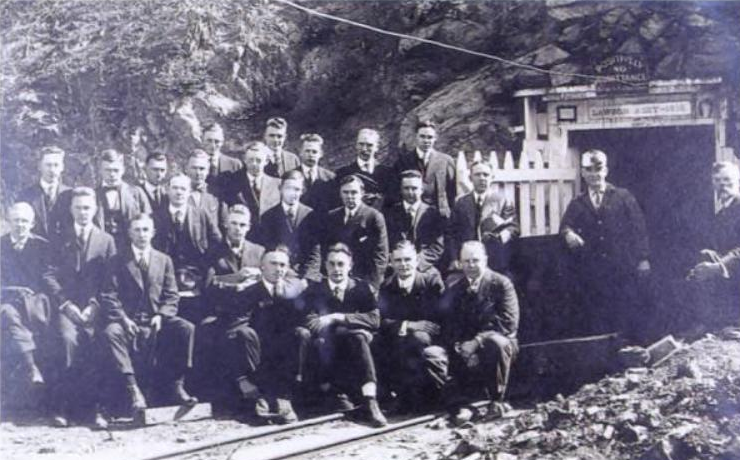 Photo of University of California, Berkeley students of the School of Mining at the entrance to Lawson Adit, a horizontal mine tunnel, or adit, on the UC Berkeley campus, near the Hearst Mining Building, dug directly through the Hayward Fault. The 1917 photo shows Dean Andrew Lawson (far right) and Frank Probert (center, third from right).